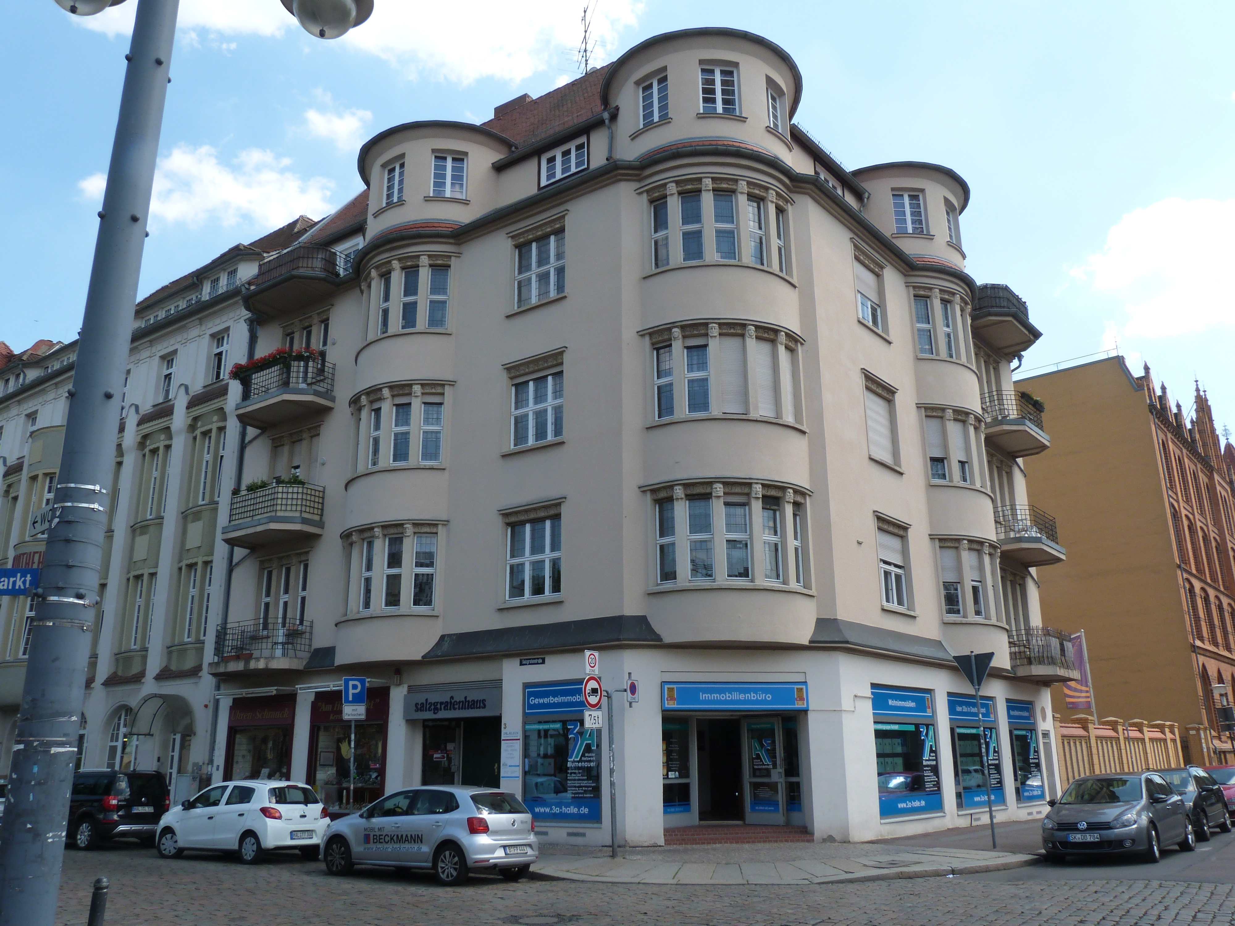 House No. 3, Salzgrafenstrasse in Halle (Saale)